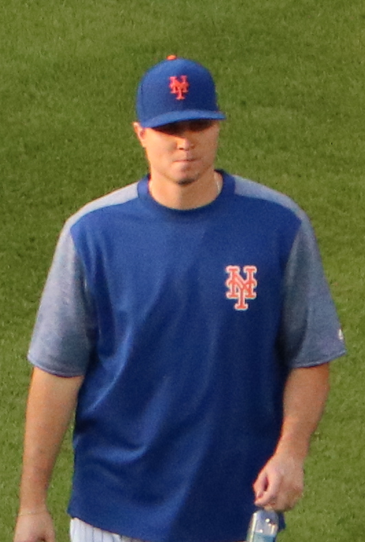 Mets starters on July 13, 2018